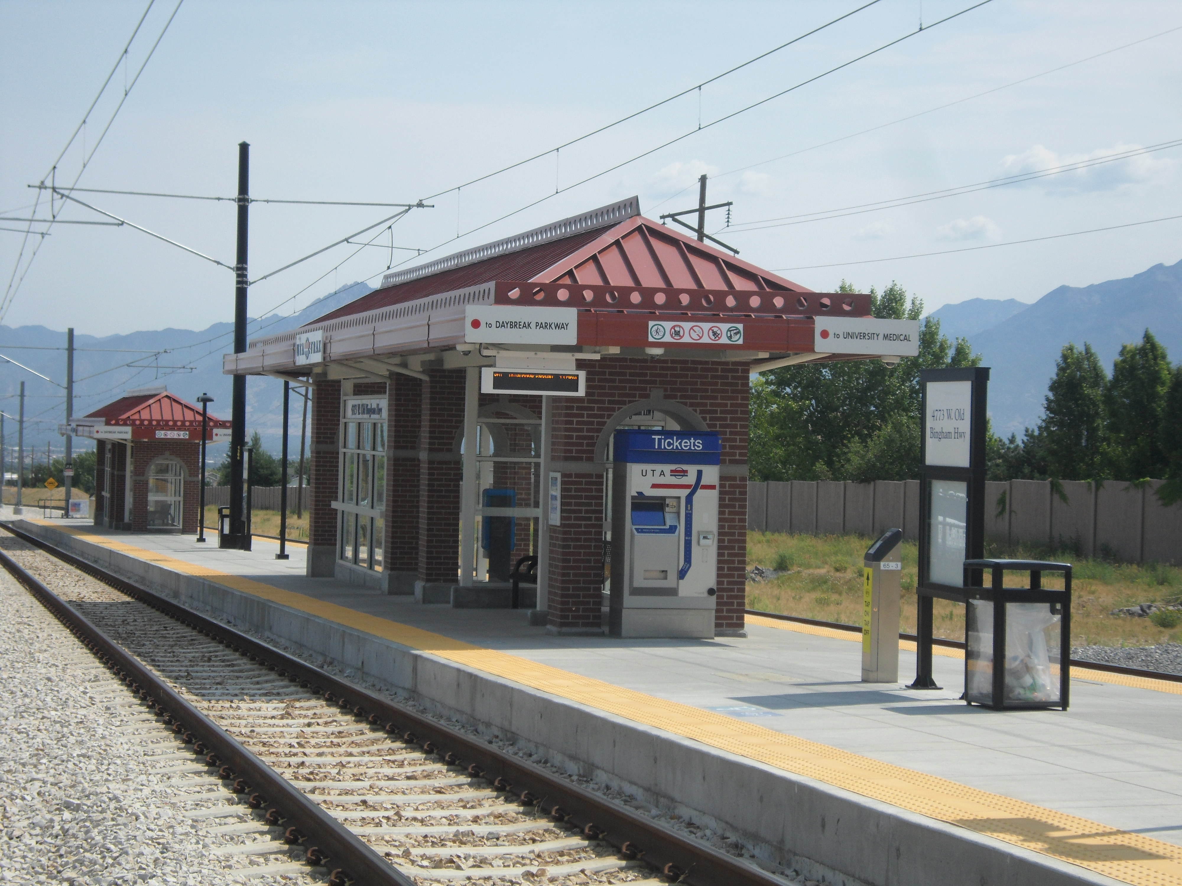 Looking east at the passenger platform of 4800 West Old Bingham Highway station in WestCor Jordan, Utah, July 2012